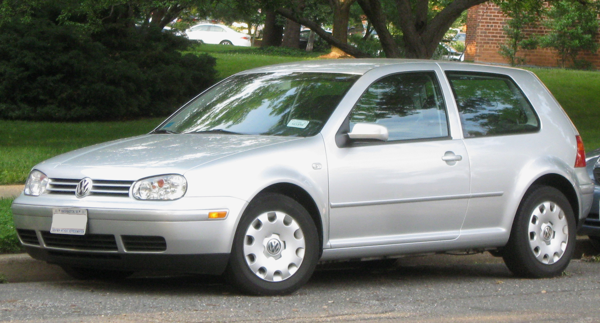 1999-2006 Volkswagen Golf photographed in Washington, D.C., USA.